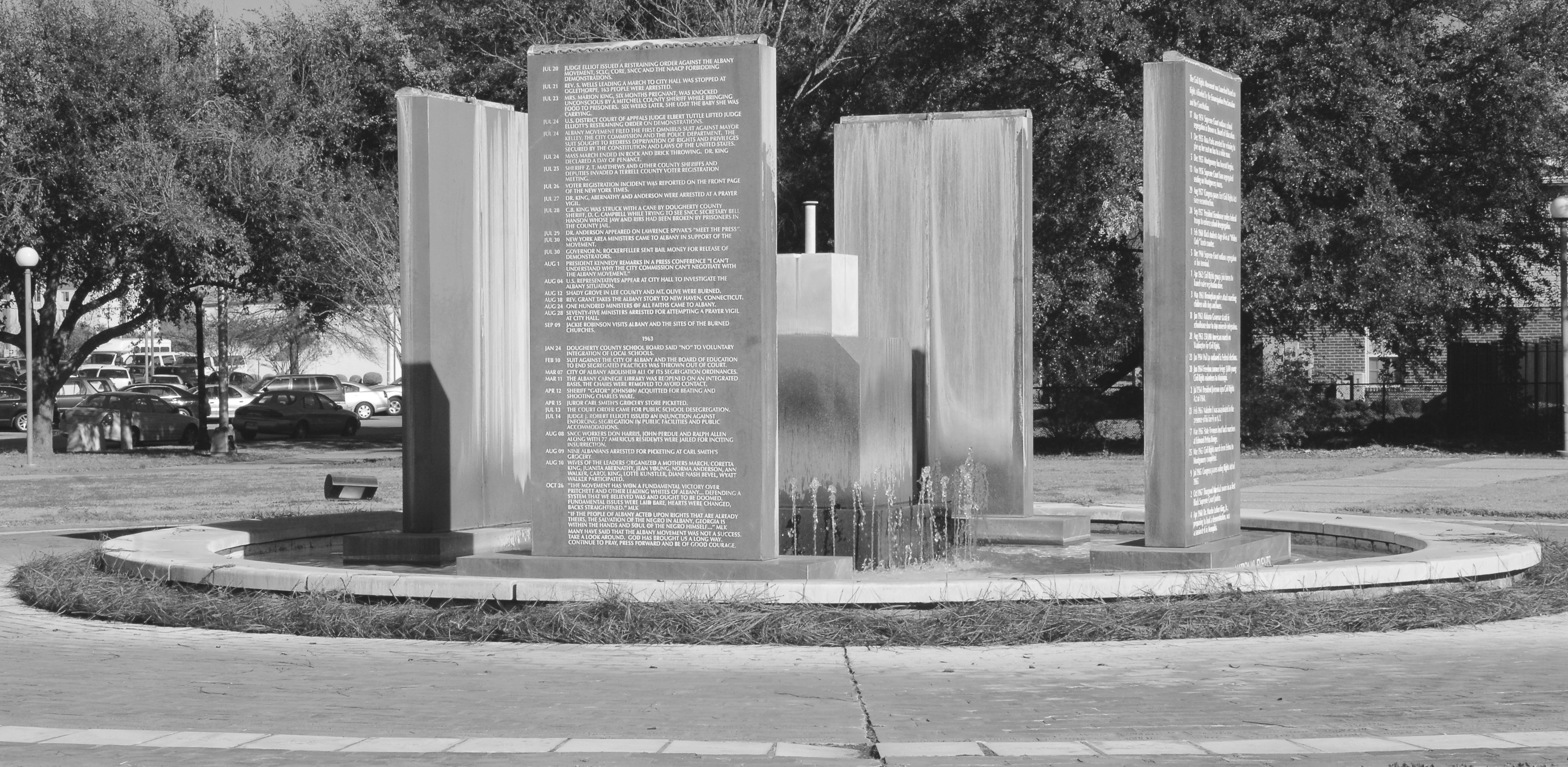 Four monuments in the Charles M. Sherrod Civil Rights Park in Albany, Ga., chronicle accounts of the Albany Movement and the National Civil Rights Movement events.